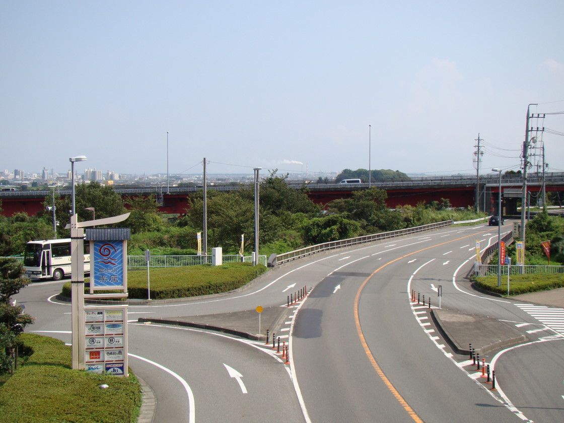 Michinoeki Fujikawa Rakuza by the Shizuoka Prefectural Road 10